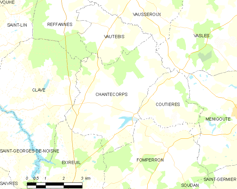 Map of French municipality Chantecorps